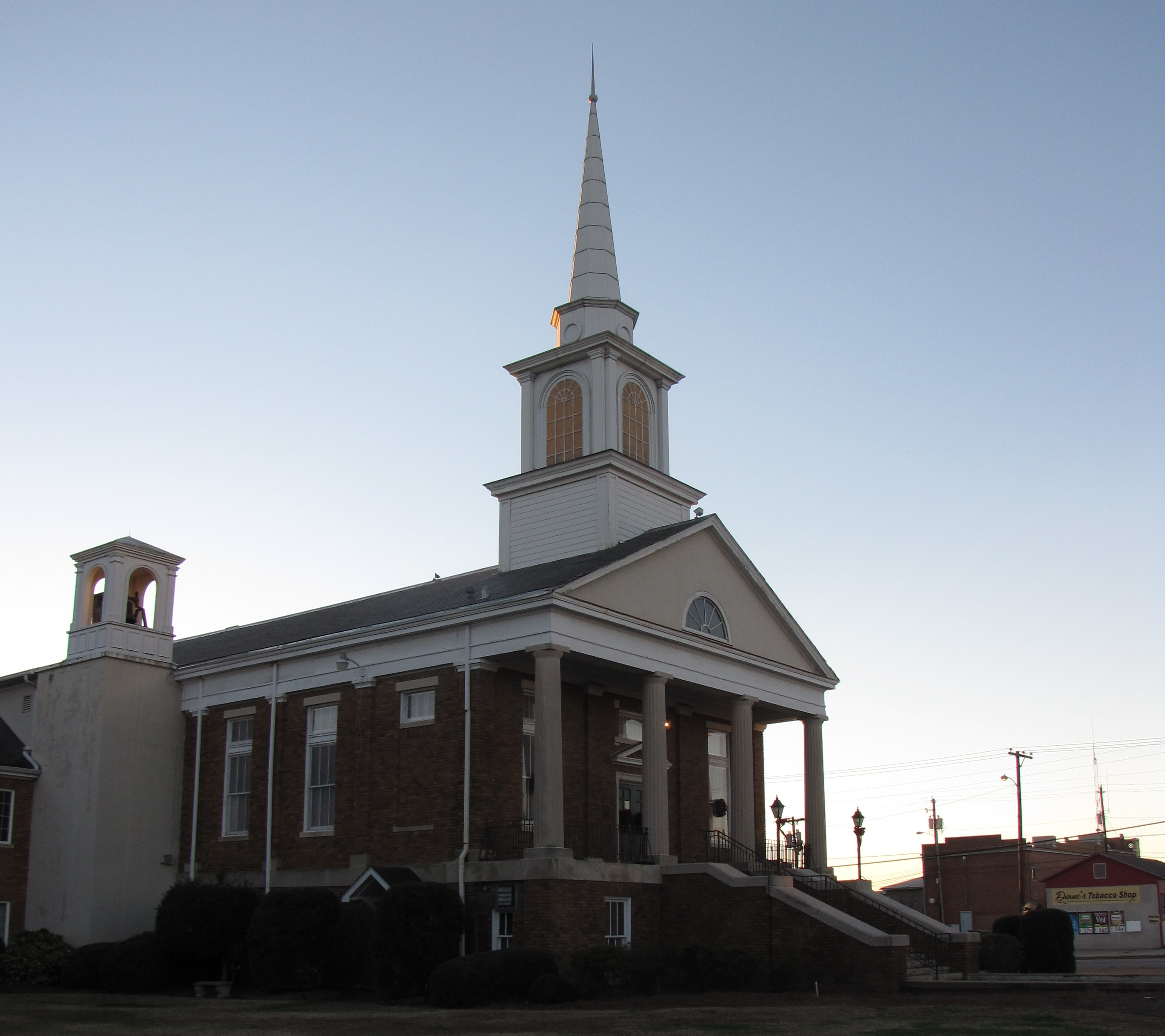 First Presbyterian Church of Dillon, South Carolina is on East Harrison Street. Dillon is in Dillon County and just a few miles from the North Carolina state line.